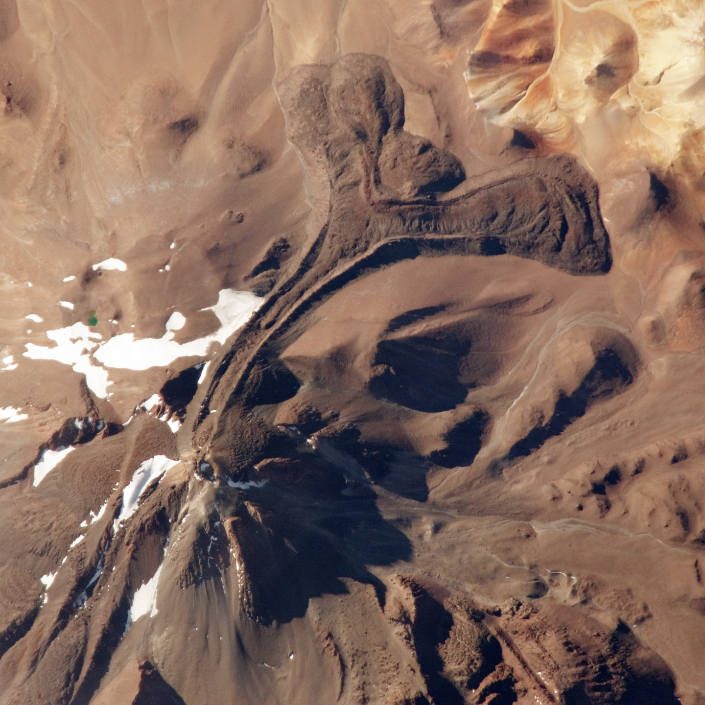 The summit of South America’s Llullaillaco Volcano has an elevation of 6,739 meters (22,110 feet) above sea level, making it the highest historically active volcano in the world. The current stratovolcano—a cone-shaped volcano built from successive layers of thick lava flows and eruption products like ash and rock fragments—is built on top of an older stratovolcano. The last explosive eruption of the volcano, based on historical records, occurred in 1877. This detailed astronaut photograph of Llullaillaco illustrates an interesting volcanic feature known as a coulée (image top right). Coulées are formed from highly viscous, thick lavas that flow onto a steep surface. As they flow slowly downwards, the top of the flow cools and forms a series of parallel ridges oriented at 90 degrees to the direction of flow (somewhat similar in appearance to the pleats of an accordion). The sides of the flow can also cool faster than the center, leading to the formation of wall-like structures known as flow levees (image center). Astronaut photograph ISS022-E-8285 was acquired on December 9, 2009, with a Nikon D2Xs digital camera using an 800mm lens, and is provided by the ISS Crew Earth Observations experiment and Image Science & Analysis Laboratory, Johnson Space Center. The image was taken by the Expedition 22 crew. The image in this article has been cropped and enhanced to improve contrast. Lens artifacts have been removed.